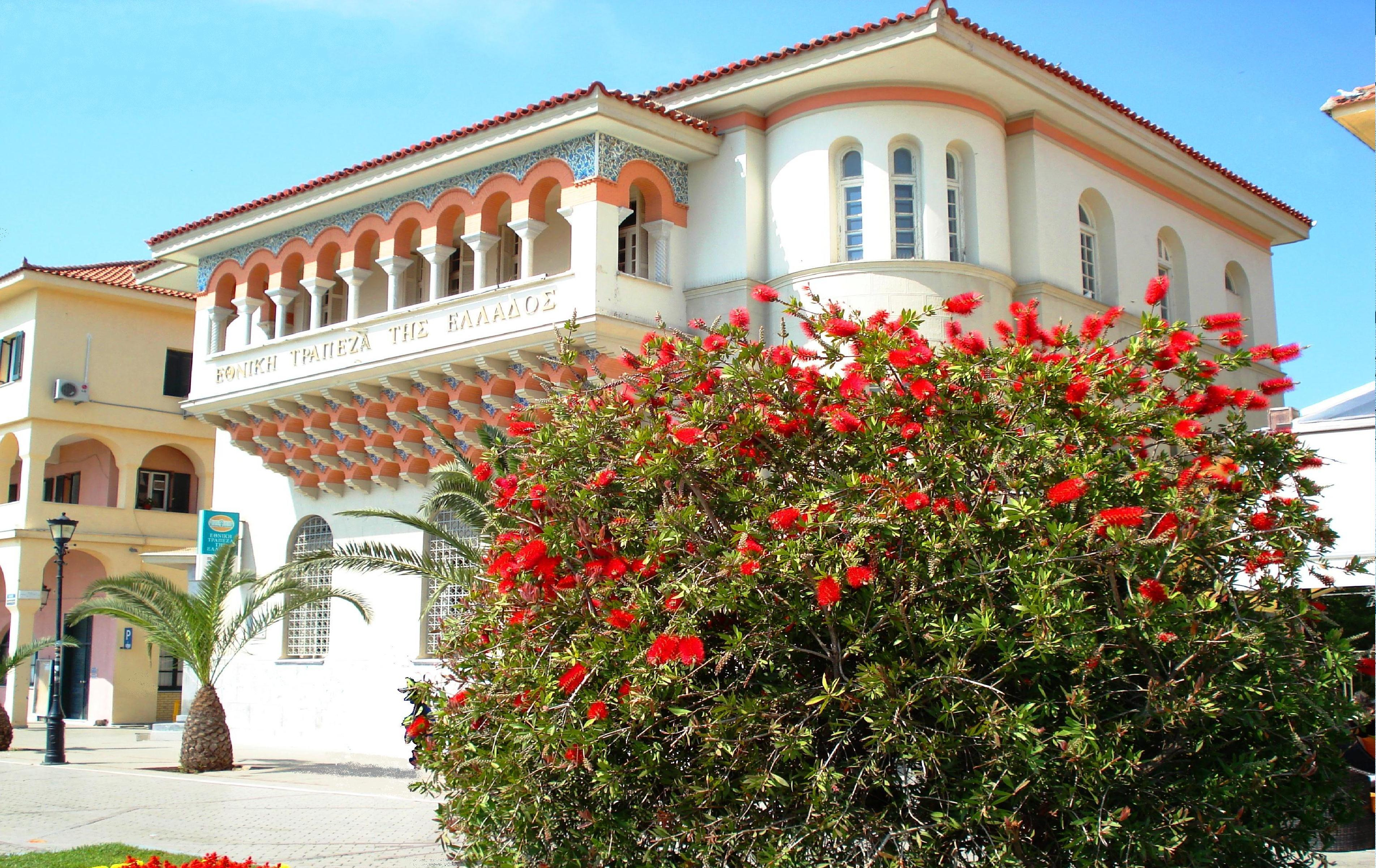 The building of the branch of the National Bank of Greece in Preveza.